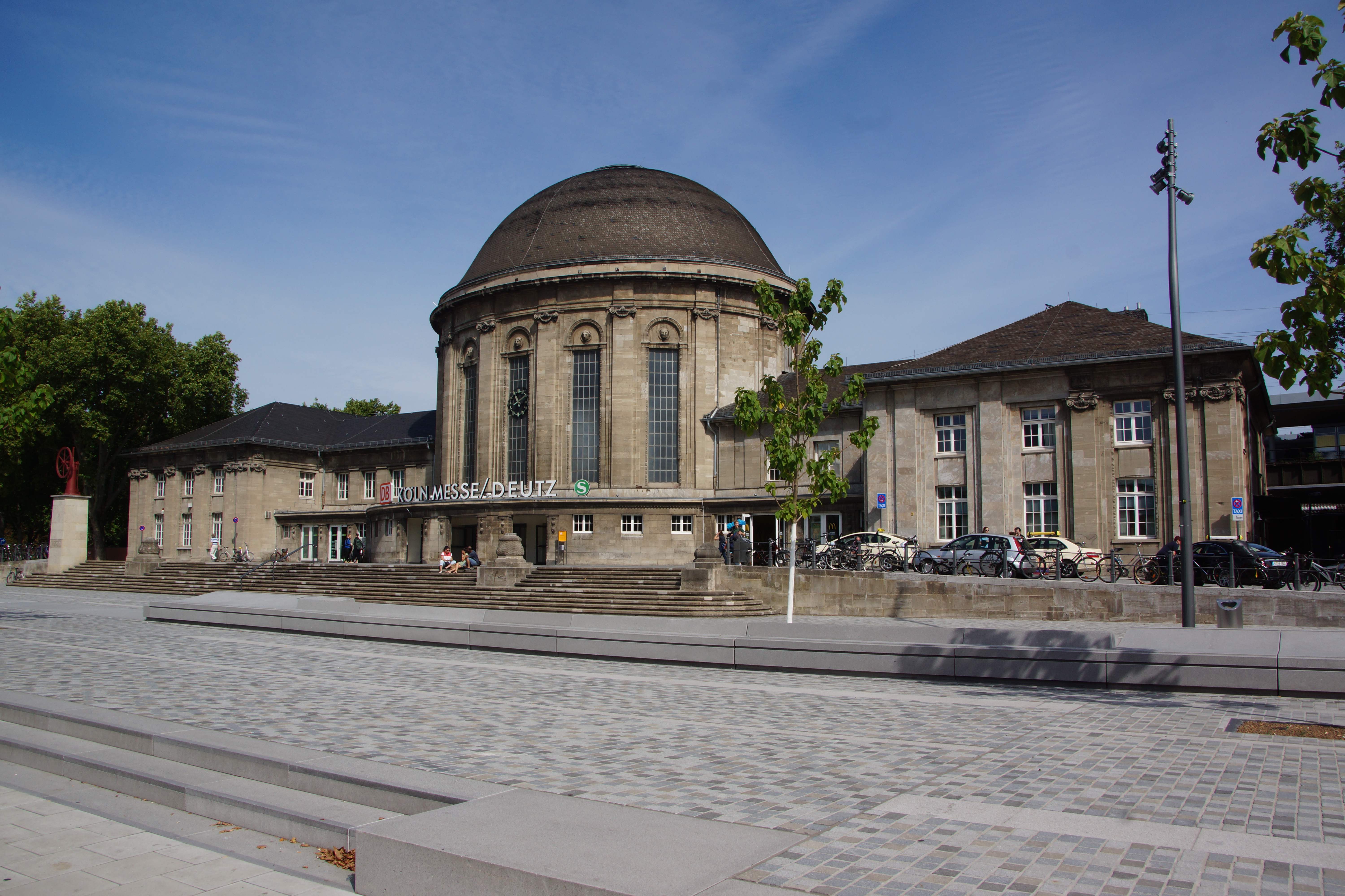 Deutz, Train Station This is a photograph of an architectural monument.